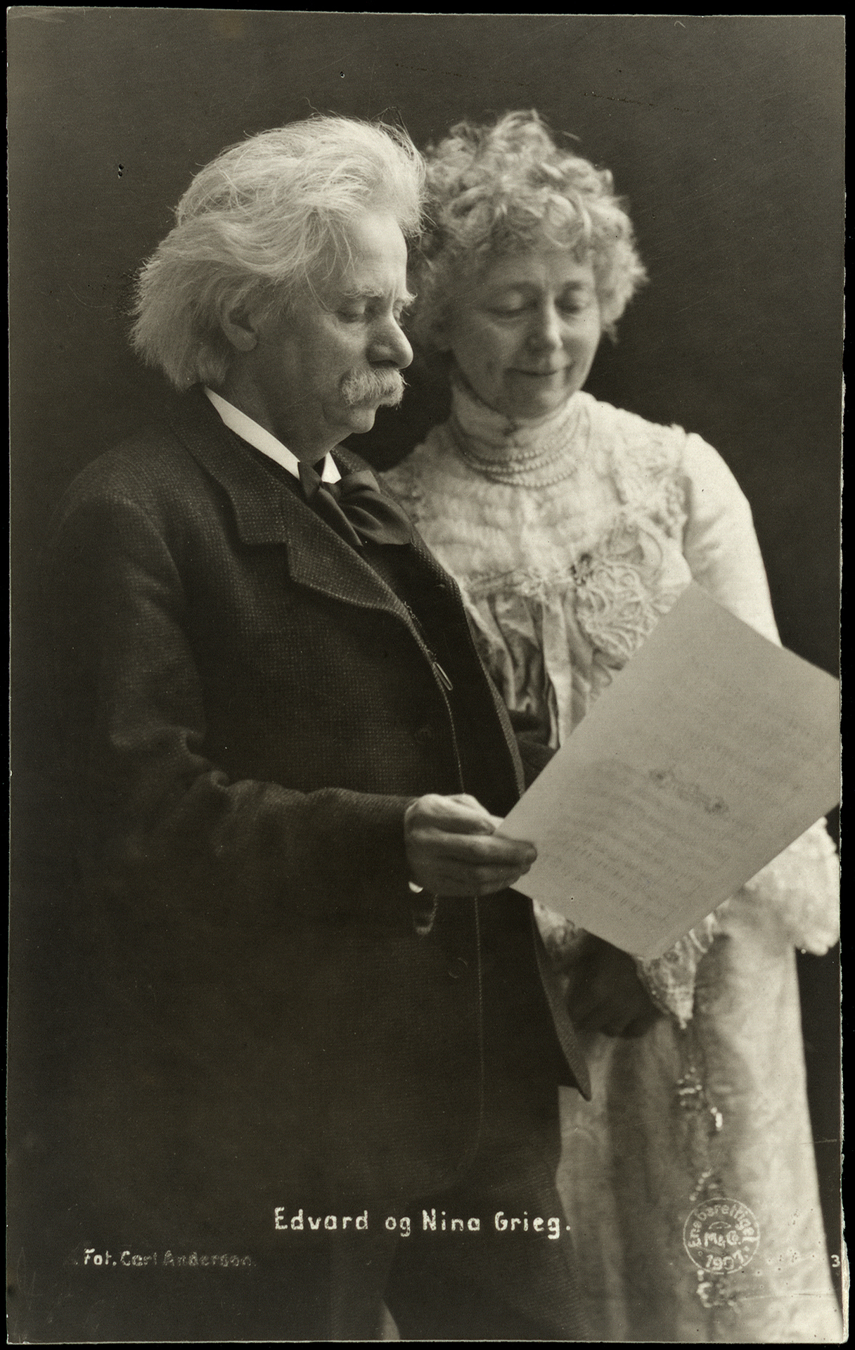 Tittel / Title: Edvard og Nina Grieg Motiv / Motif: Postkort. Dato / Date: ukjent / unknown Fotograf / Photographer: Karl Anderson (1867-1913) Eier / Owner Institution: Nasjonalbiblioteket / National Library of Norway Lenke / Link: Bildesignatur / Image Number: blds_01912